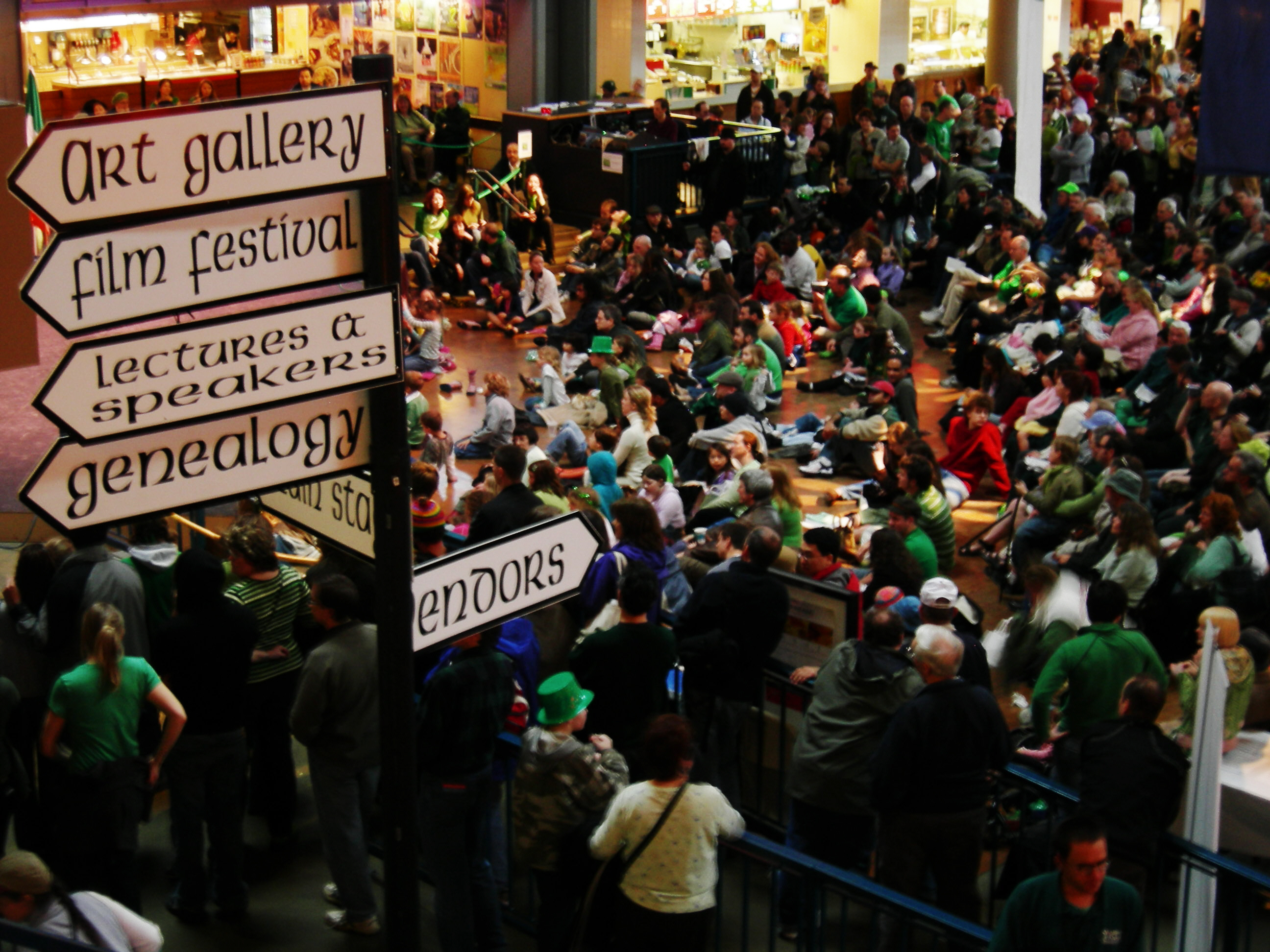 Directional signs, Festál Irish Festival, Center House, Seattle Center, Seattle, Washington.